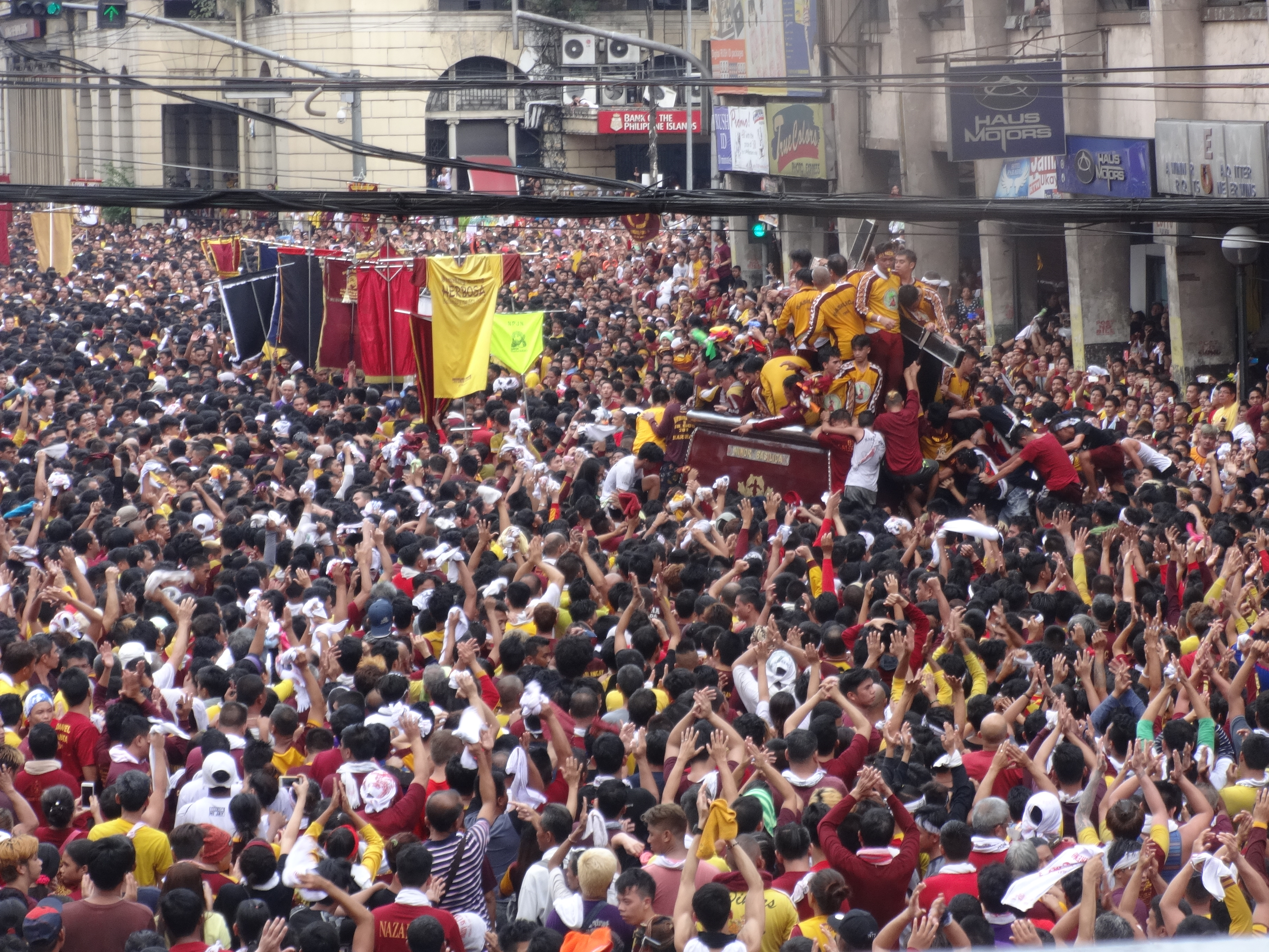 Nazareno Translacion in Santa Cruz, Manila